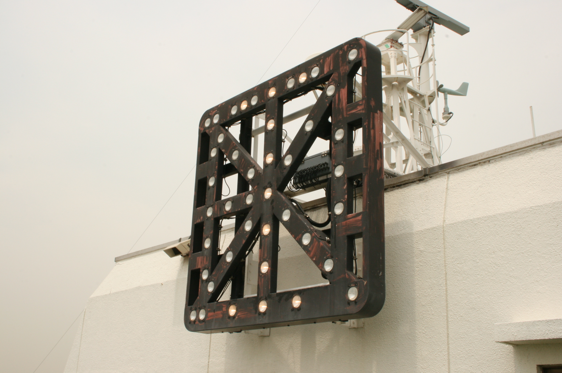 sea mark,Signal-bord "Ｉ"